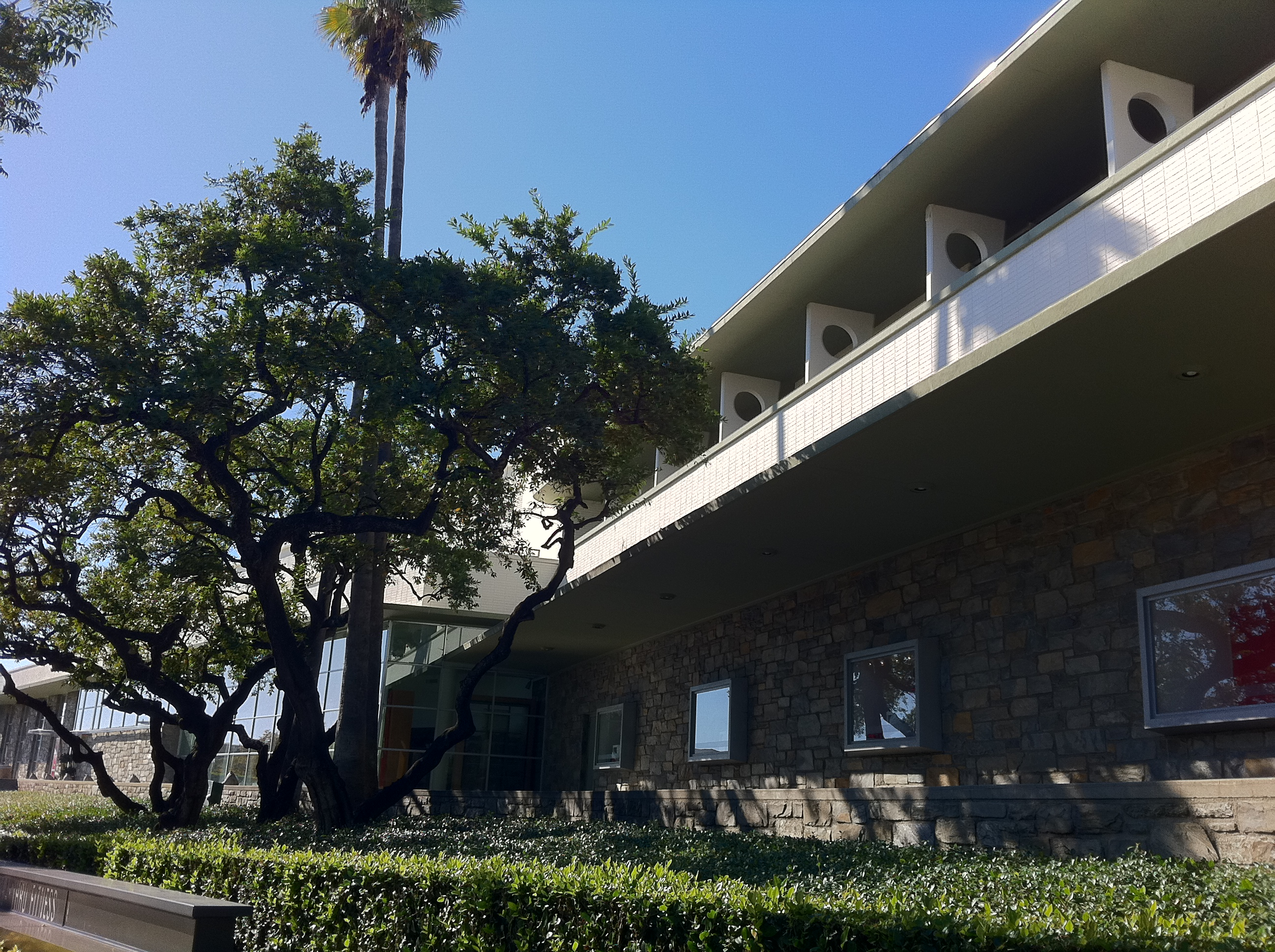 Bullock's Pasadena (looking south) — former department store on South Lake Avenue, Pasadena.